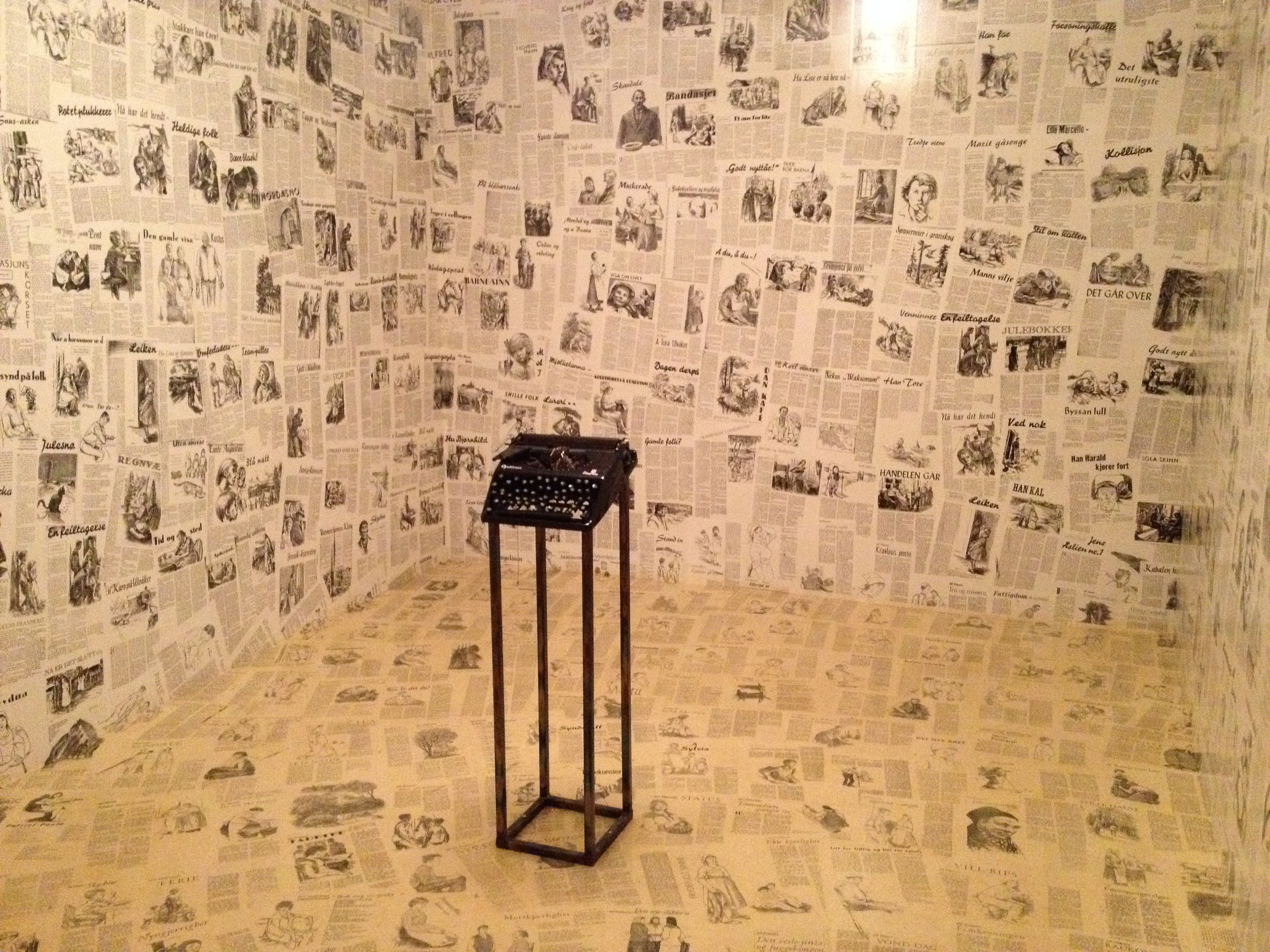 From exhibitions at Prøysenhuset, museum to Alf Prøysen , in Ringsaker Norway. Room showing complete Lørdagsstubber